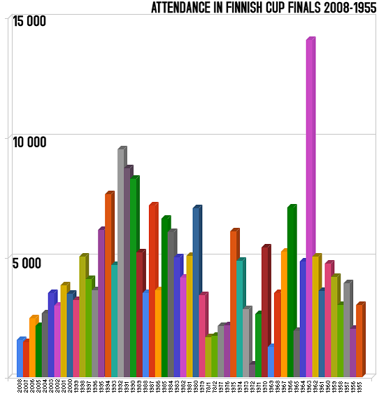 Finnish Cup (football) Final Attendances 2008-1955. Note: in 1978 there were 2 finals, not one. Data source: Soininen, Heidi (editor): Jalkapallokirja 2007, ISBN 6418616177575. There is also Finnish version of this chart